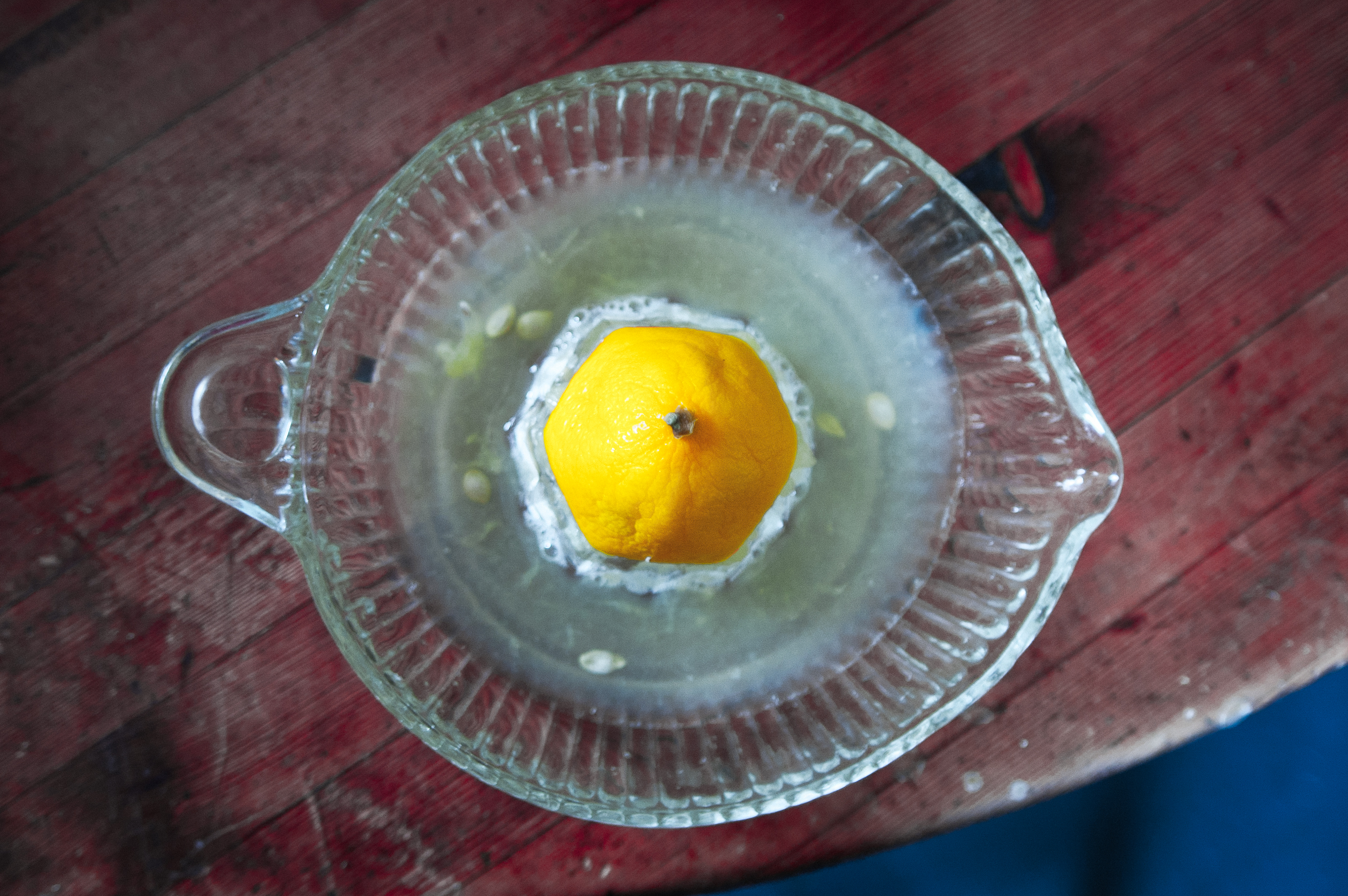 Lemon juice